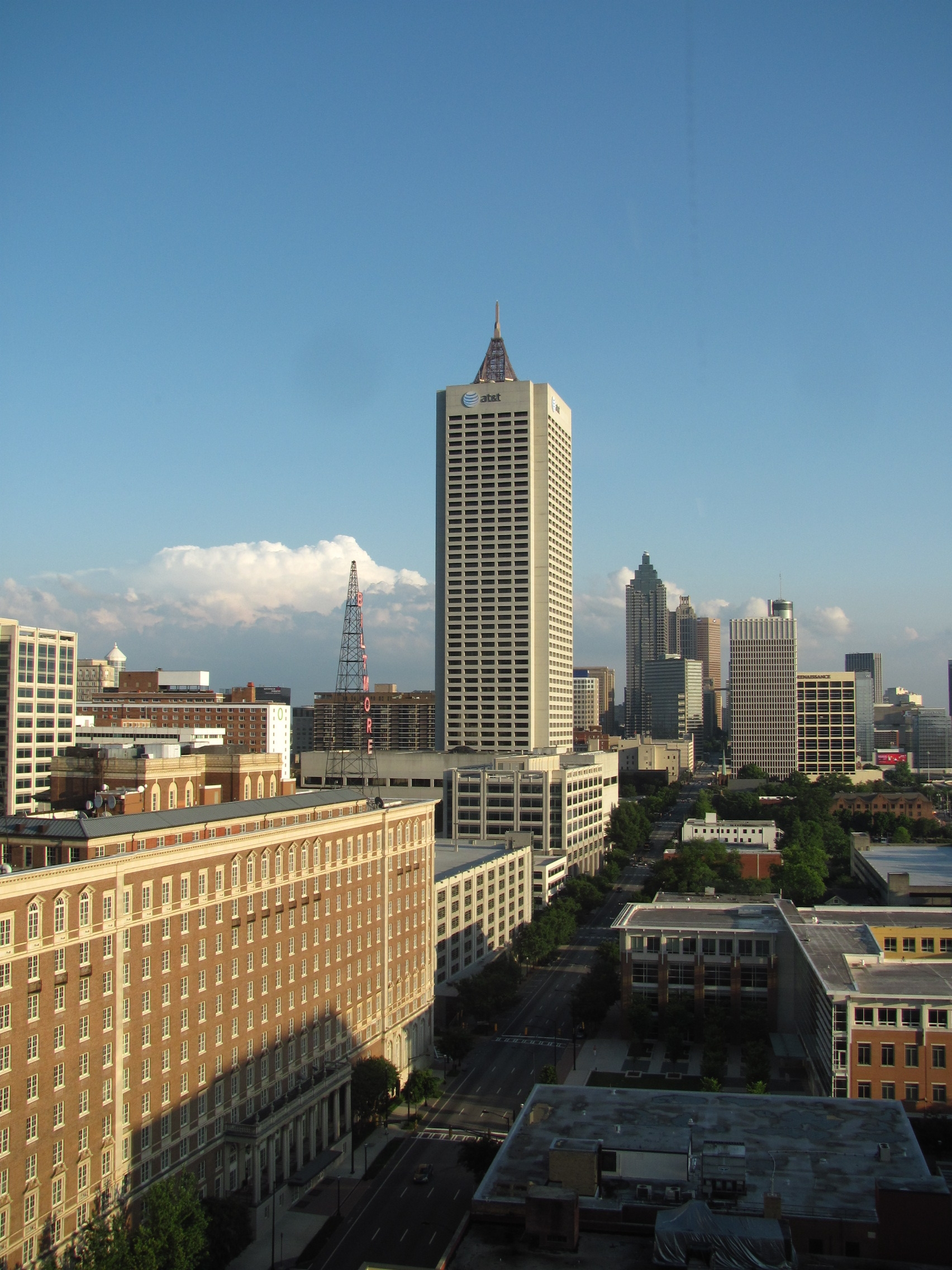 View south from the Palomar Hotel, Atlanta Georgia